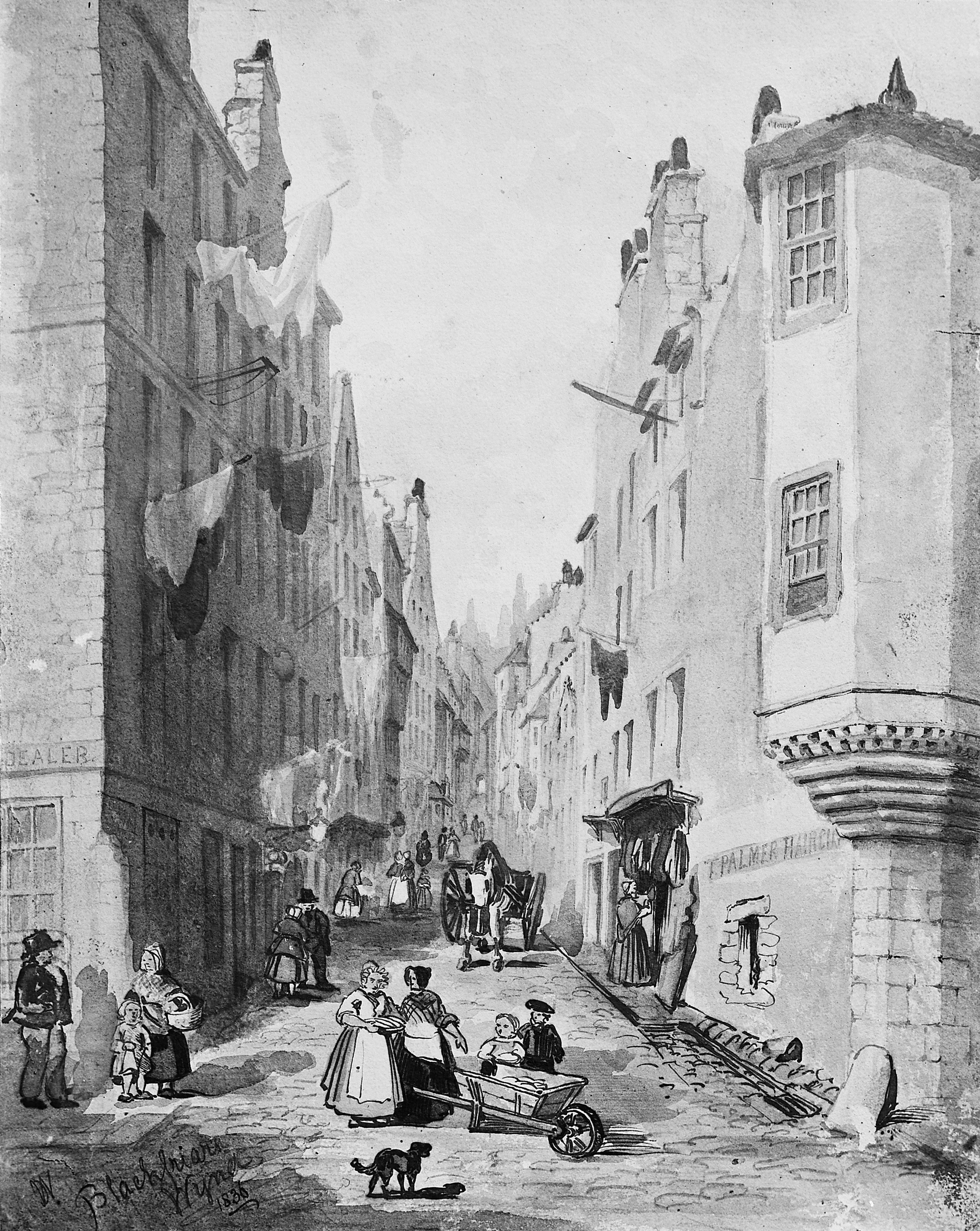 Blackfriars Wynd, looking from the Cowgate.